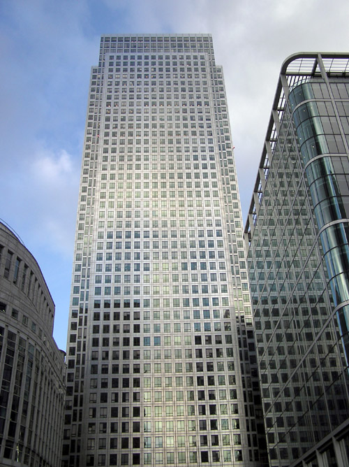 Canary Wharf tower, 812 feet high (247 metres). Taken by Adrian Pingstone in November 2004 and released to the public domain.